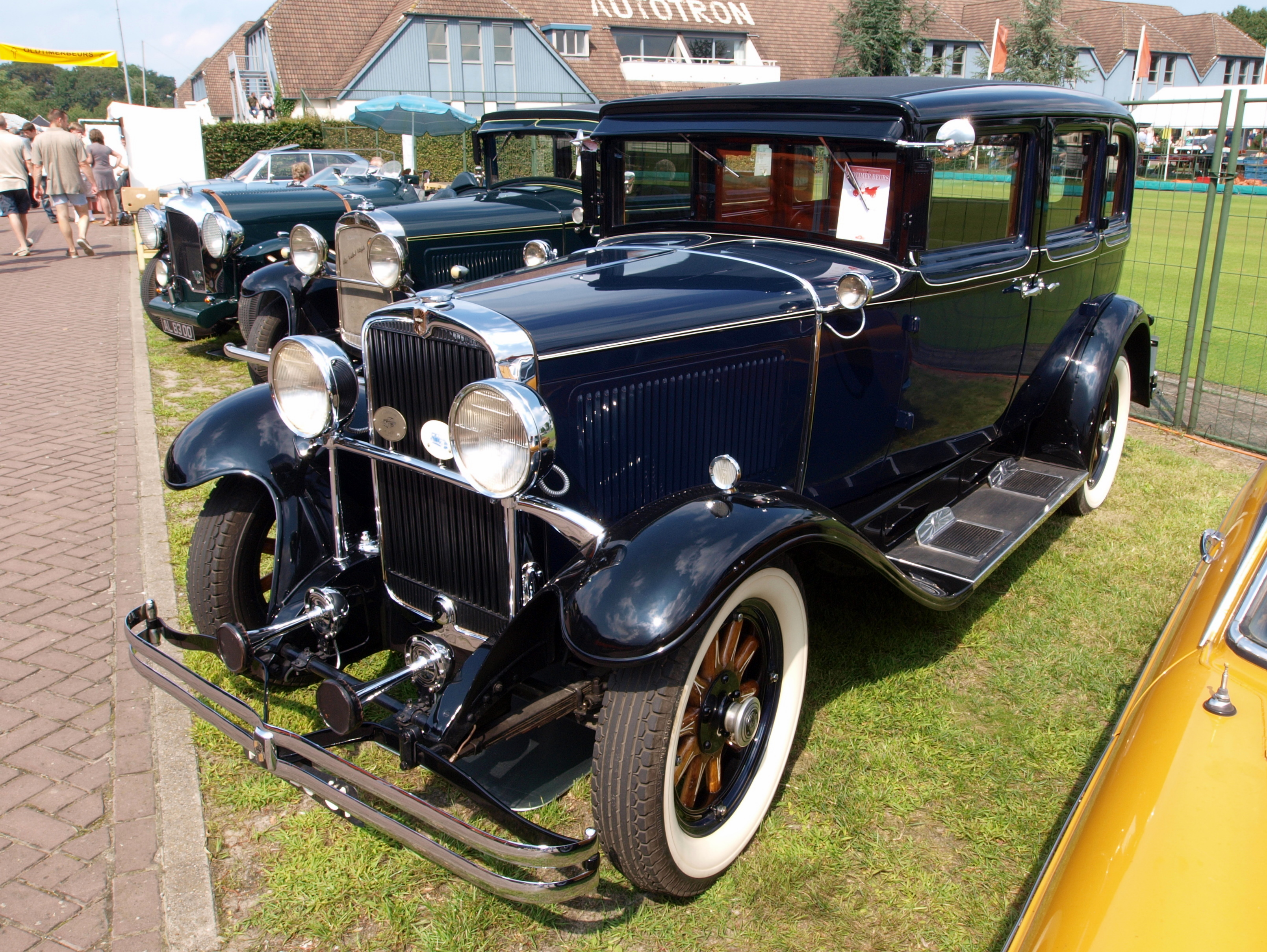 Photographed at the 2010 Autotron Classic car meeting, Rosmalen, The Netherlands. OLYMPUS DIGITAL CAMERA